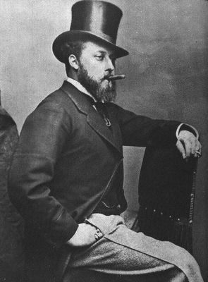 Edward Prince of Wales, later Edward VII (1841-1910)